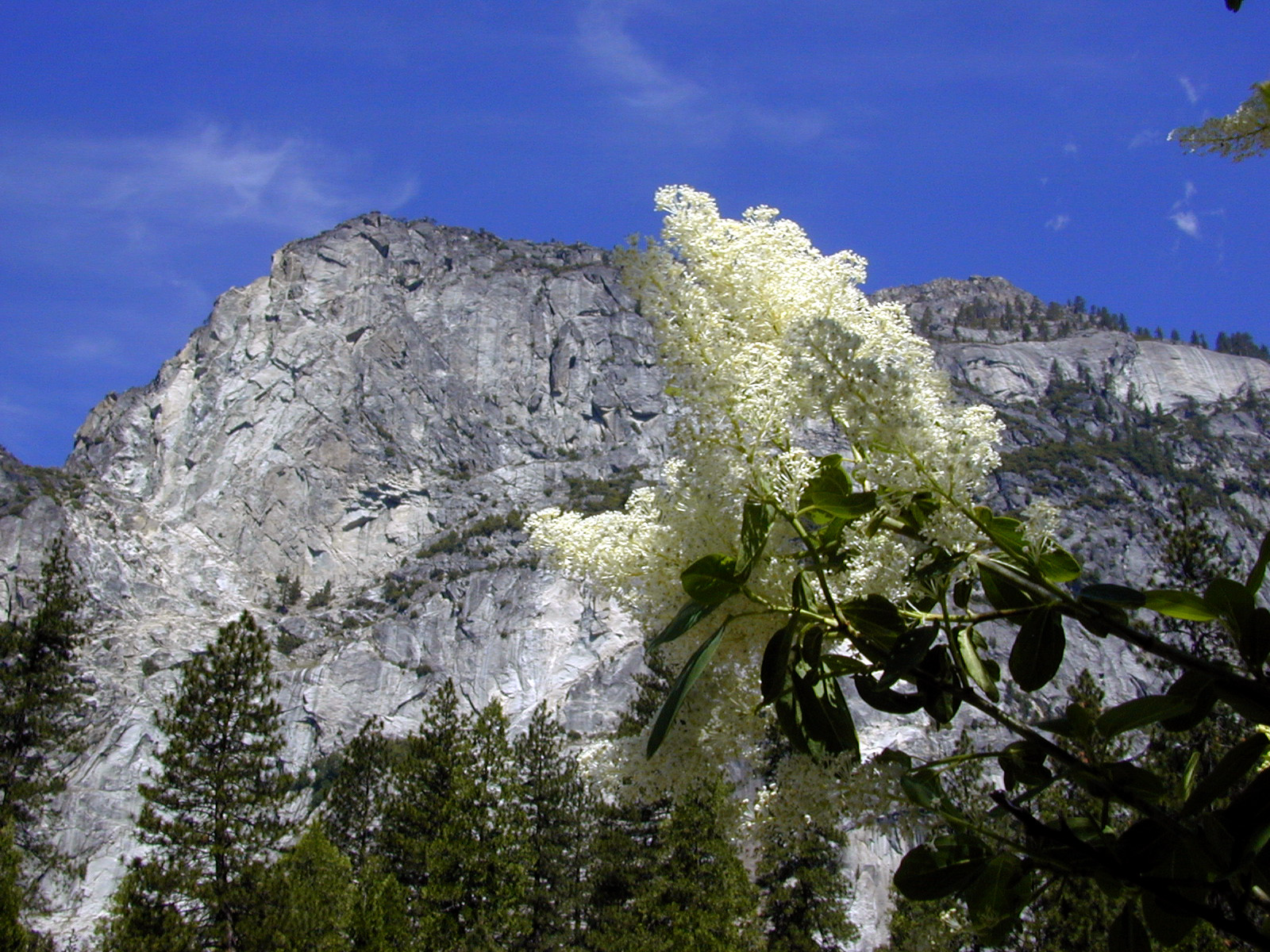 Deer Brush (Ceanothus integerrimus), Yosemite National Park. "California Lilac"